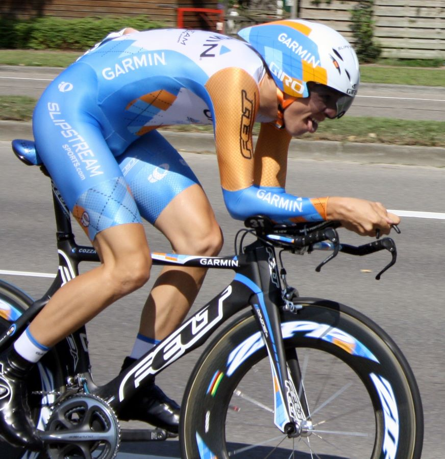 Ricardo van der Velde at the 2009 Eneco Tour prologue